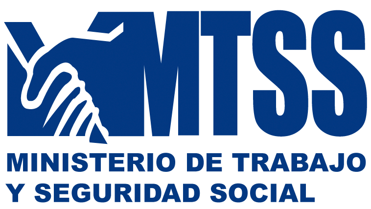 Ministerio de Trabajo y Seguridad Social